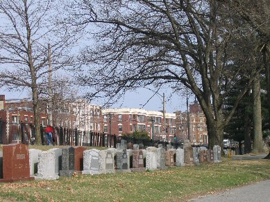 Brighton, MA, near the Chestnut Hill Reservoir.